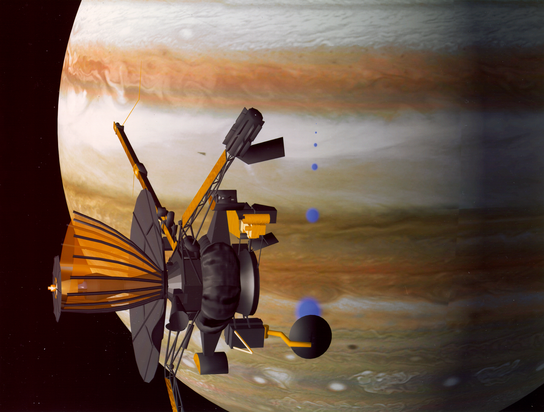 As it arrived at Jupiter on December 7, 1995, NASA's Galileo orbiter received a stream of data transmissions -- represented by the blue dots in this artist's depiction -- from the atmospheric probe that was descending through Jupiter's clouds. The orbiter had released the probe five months earlier. The wok-shaped probe sent information to the orbiter for 57.6 minutes as it dropped about 200 kilometers (125 miles) through the atmosphere, before succumbing to atmospheric pressure about 23 times greater than the average at Earth's sea level. The probe returned data about sunlight, heat flux, pressure, temperature, winds, lightning and atmospheric composition. About one hour after the end of the probe's transmissions, the orbiter fired its main engine to brake into orbit around Jupiter. Note: This illustration correctly shows the partially deployed main antenna.